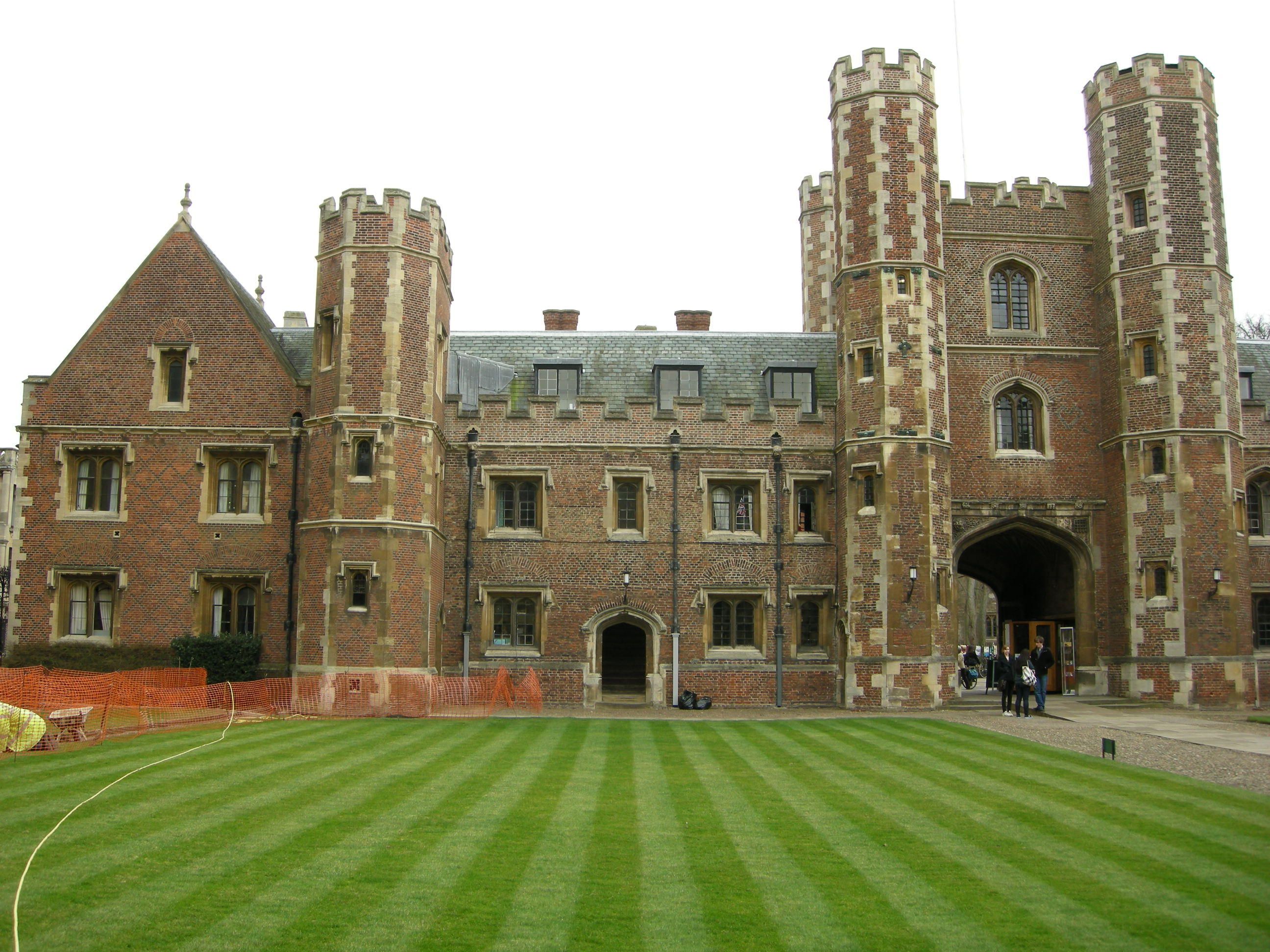 St John's College, Cambridge, first court